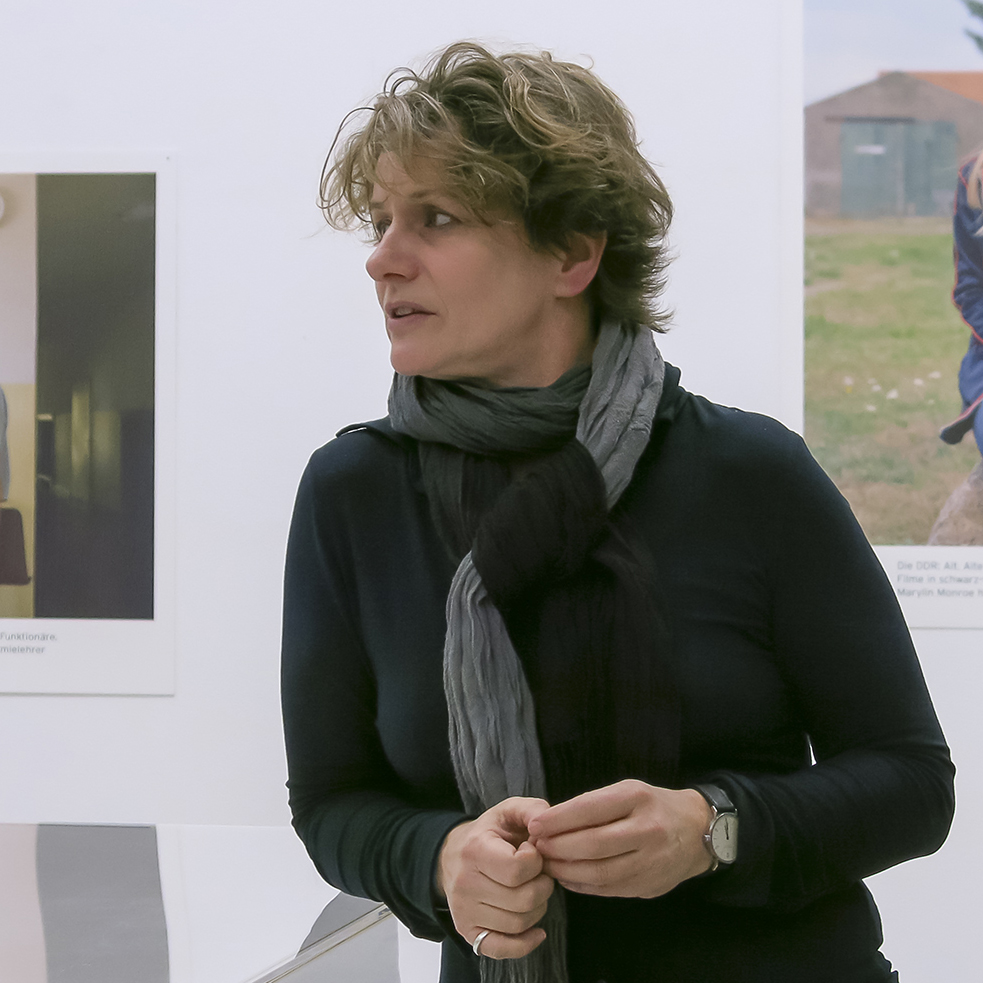 German photographer Bettina Flitner at Horbach-Stiftung Cologne, 2015